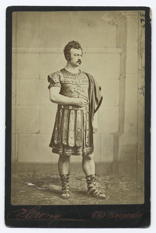 American actor Edwin Forrest, in costume as the character Spartacus.